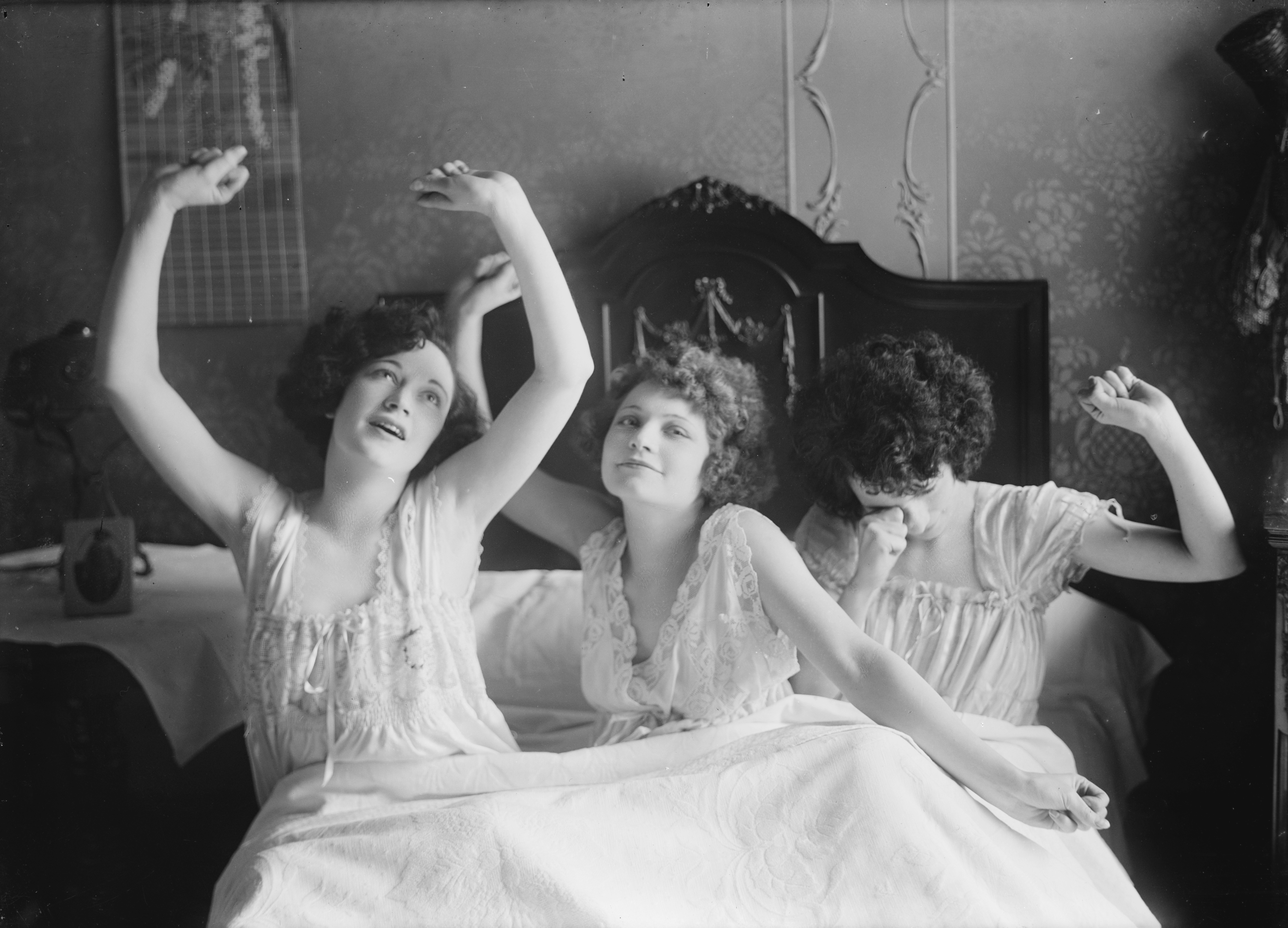 The Brox Sisters, posed in bed in nightgowns. Left to right: Patricia, Lorayne, Bobbe.